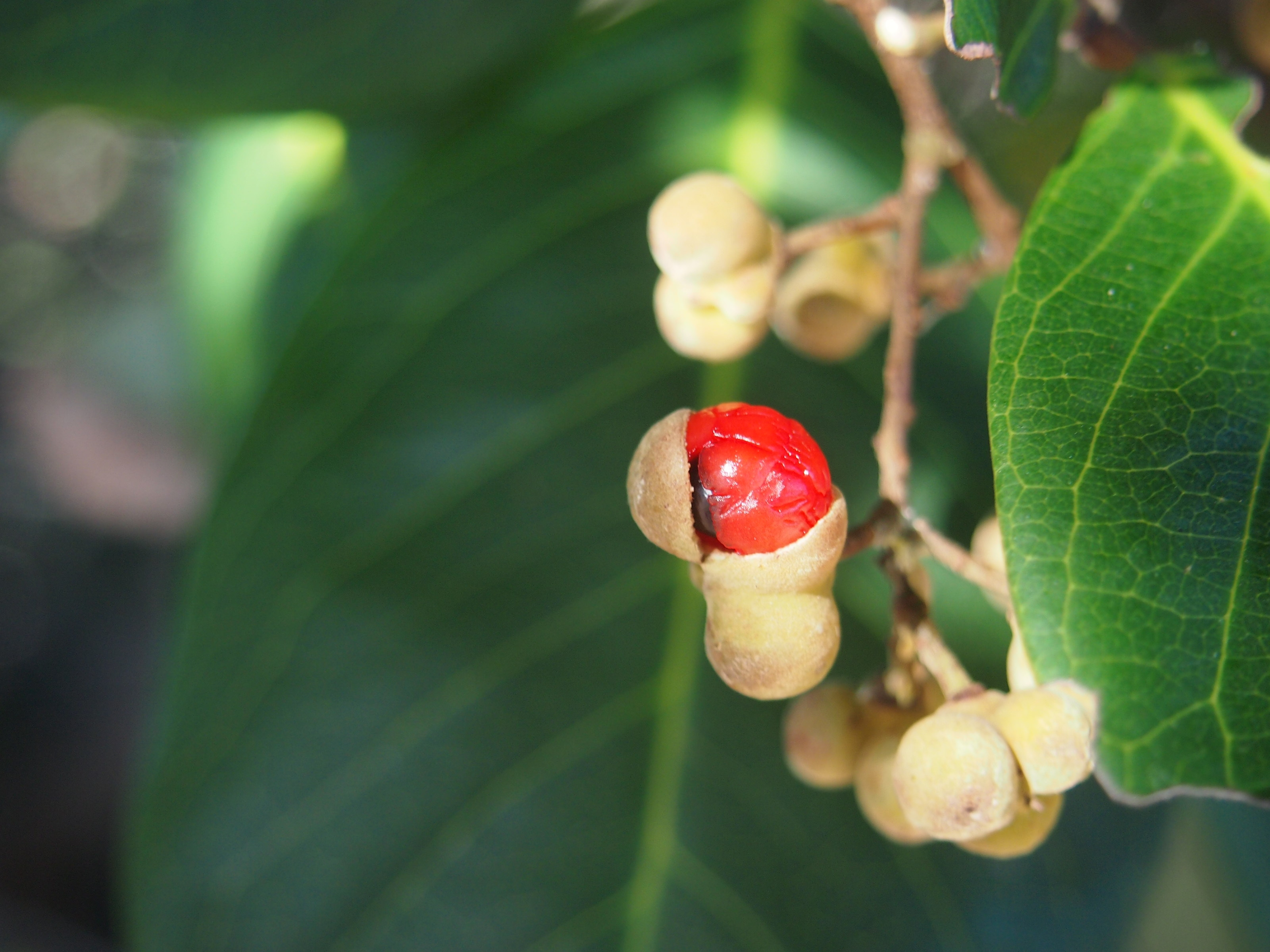 Alectryon conatus fruit